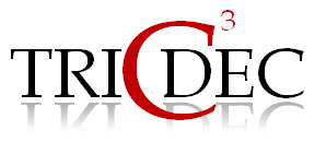 TRIDEC Project Logo